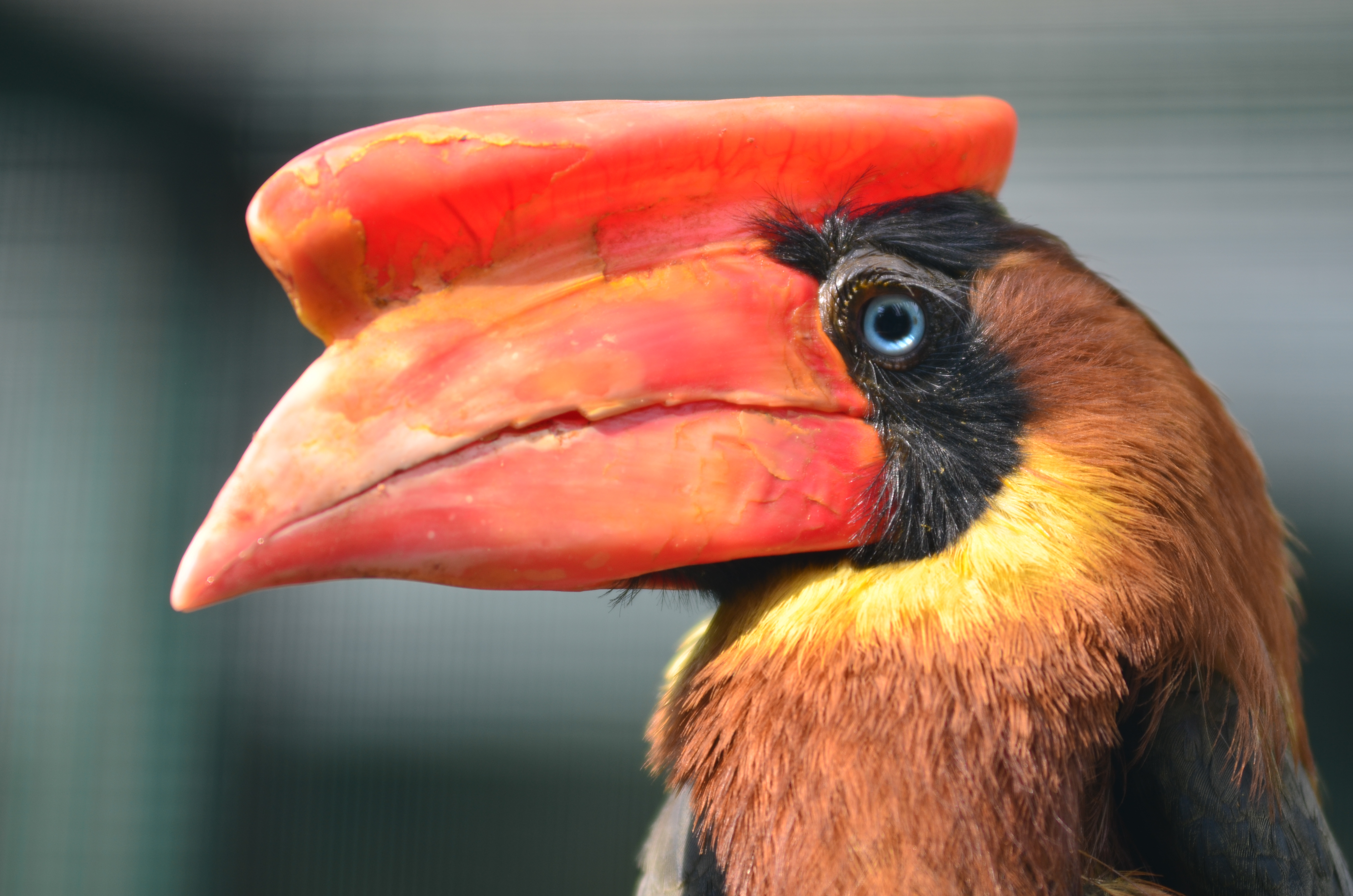 Rufous Hornbill (Buceros hydrocorax) at Weltvogelpark Walsrode (Walsrode Bird Park, Germany)